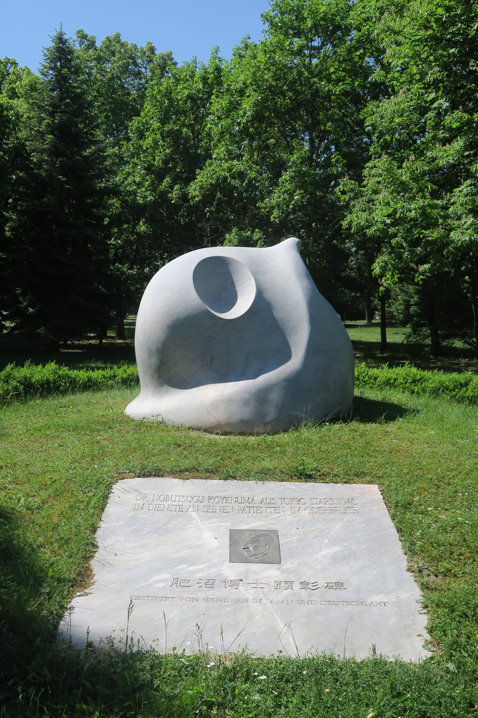 Memorial for Dr. N. Koenuma, who died during helping others